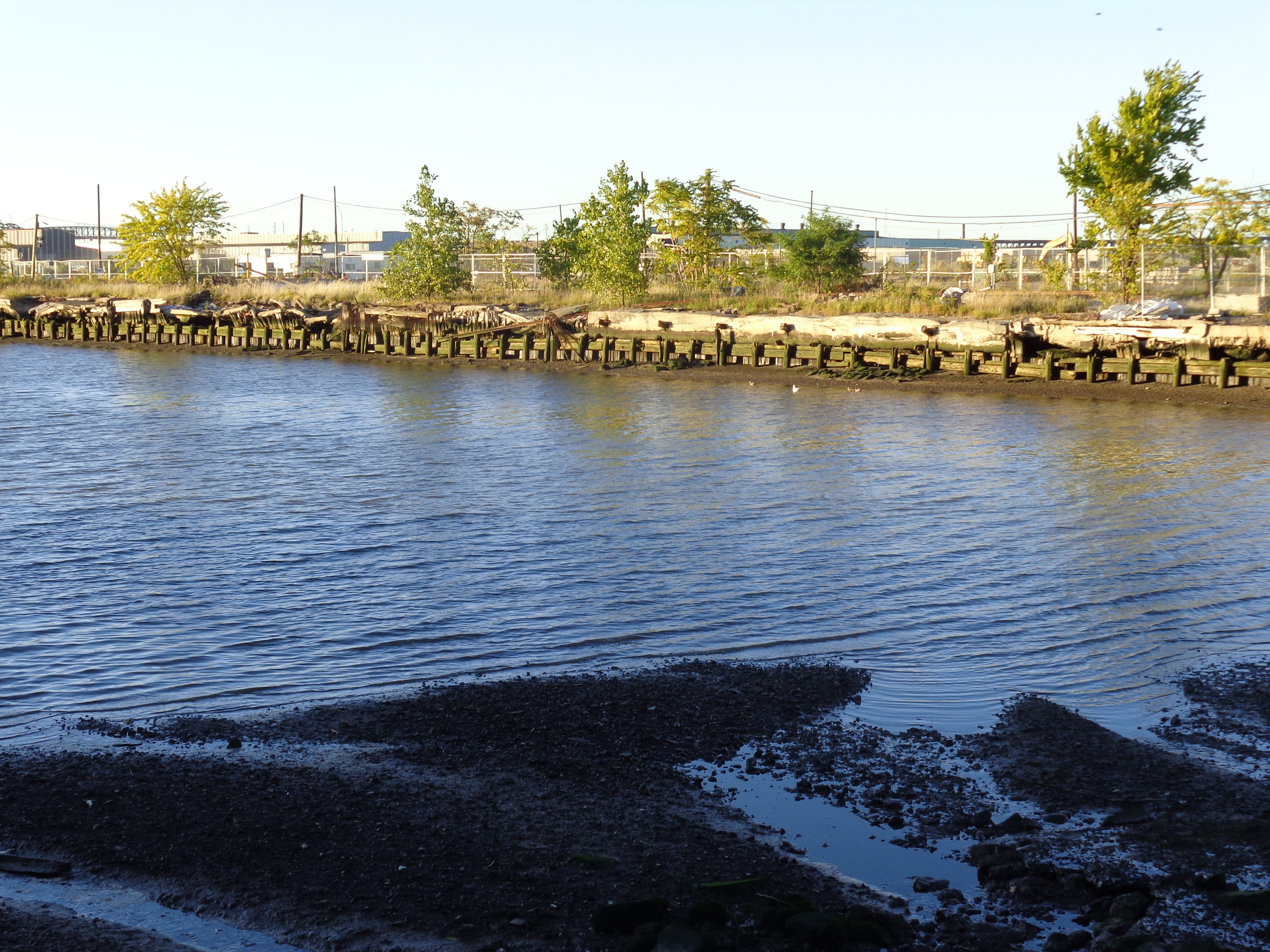 Bayfront Jersey City Honeywell redevelopment site on Hackensack River west of Route 440, seen from Droyers Point September 2013